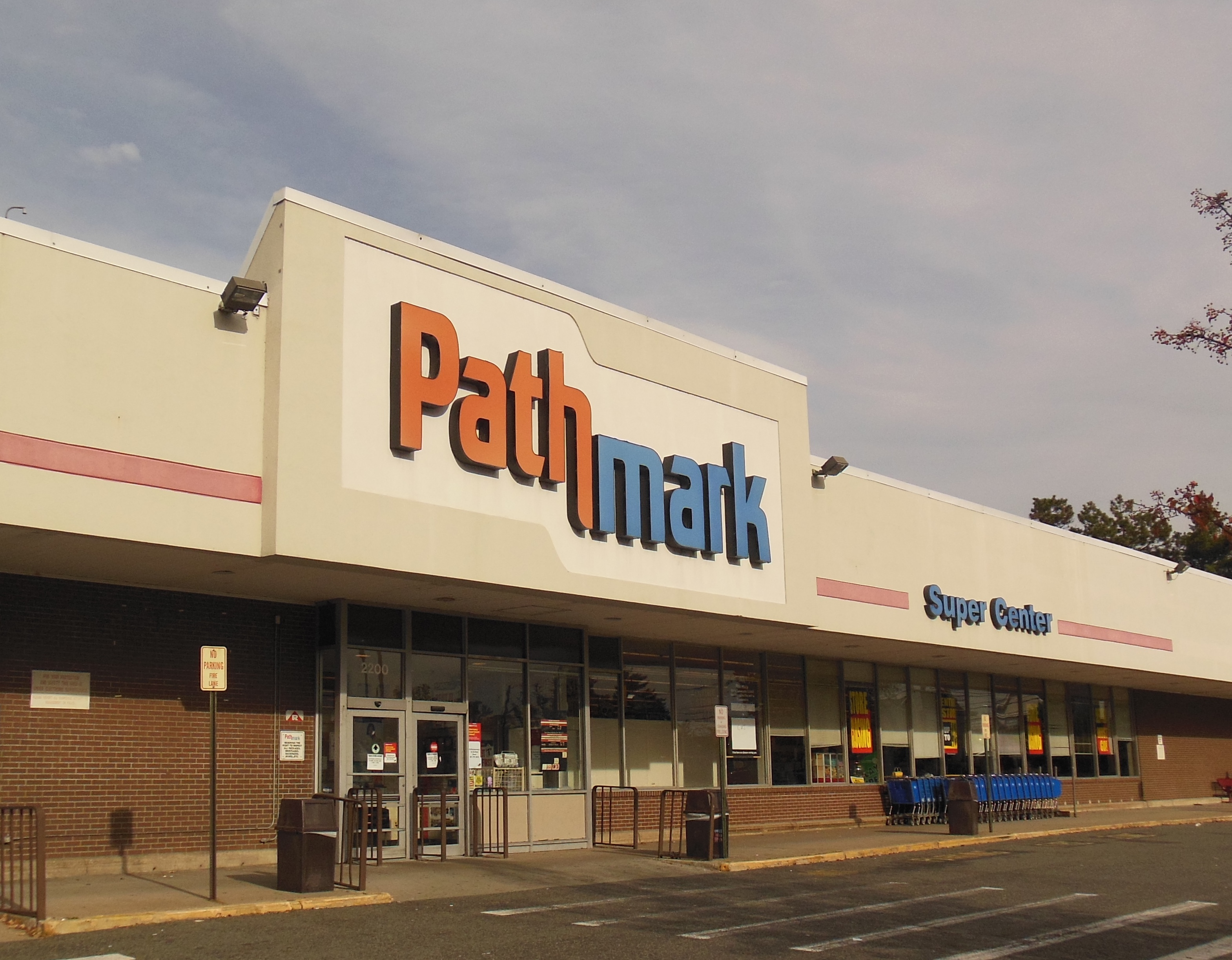 Pathmark Supermarket, Hawthorne NJ 2015